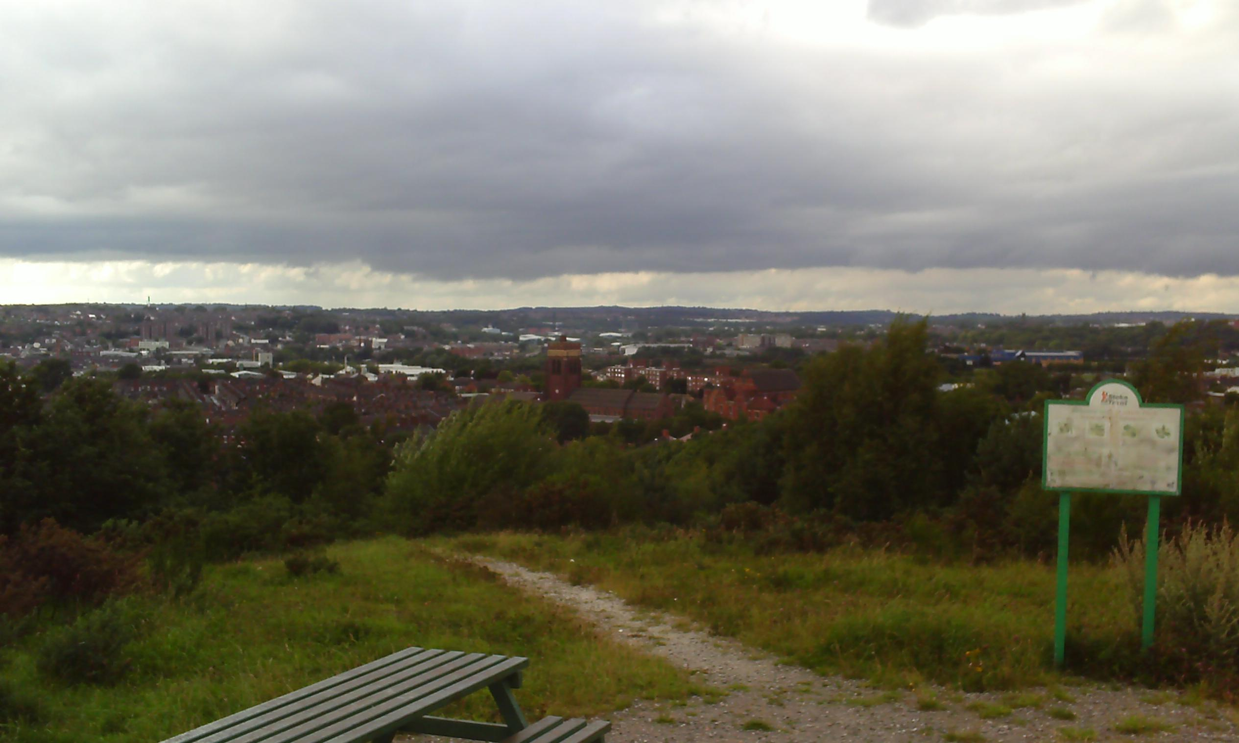 Fenton, Staffordshire